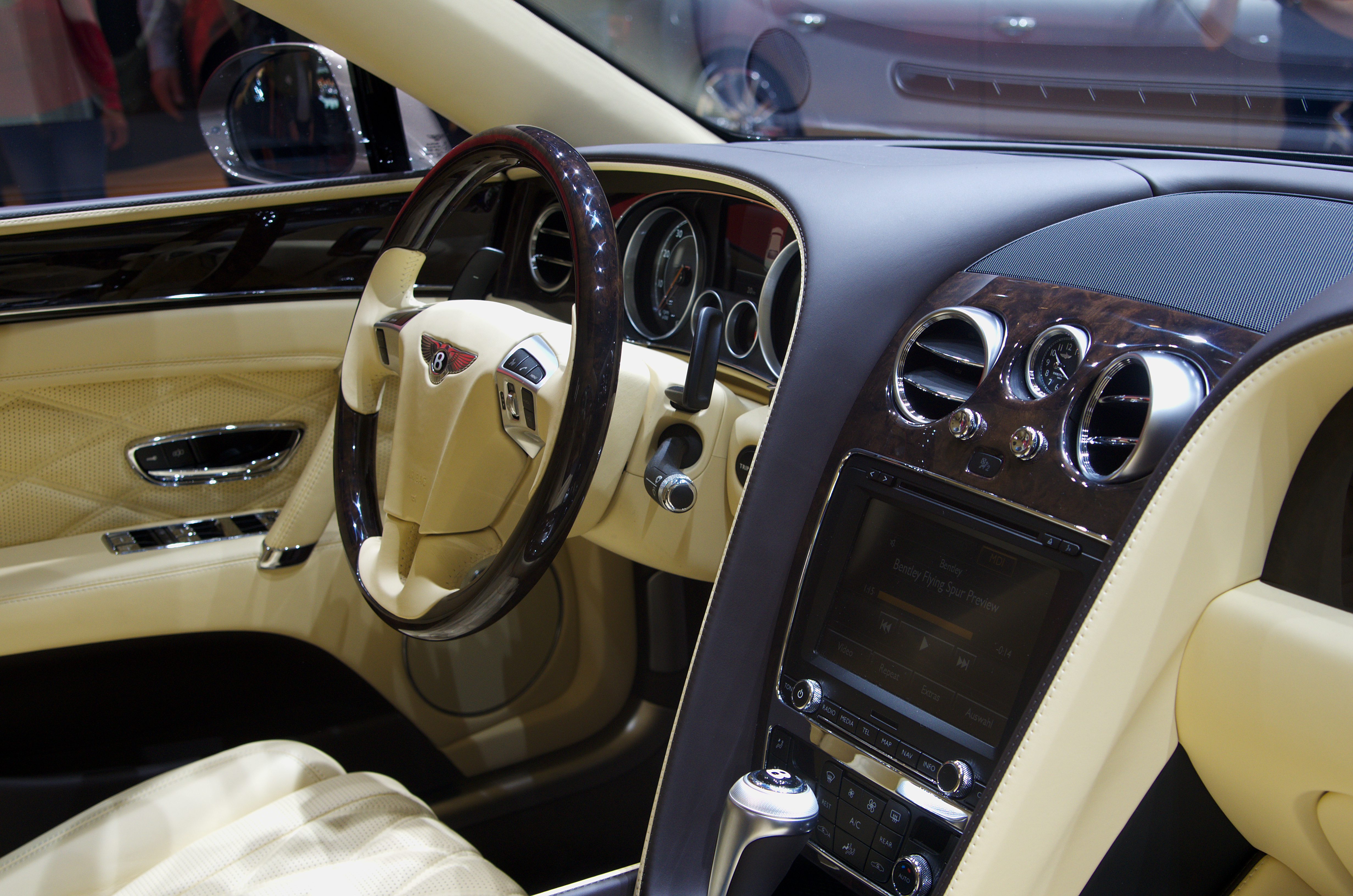 Geneva MotorShow 2013 - Bentley New Flying Spur steering wheel and center console